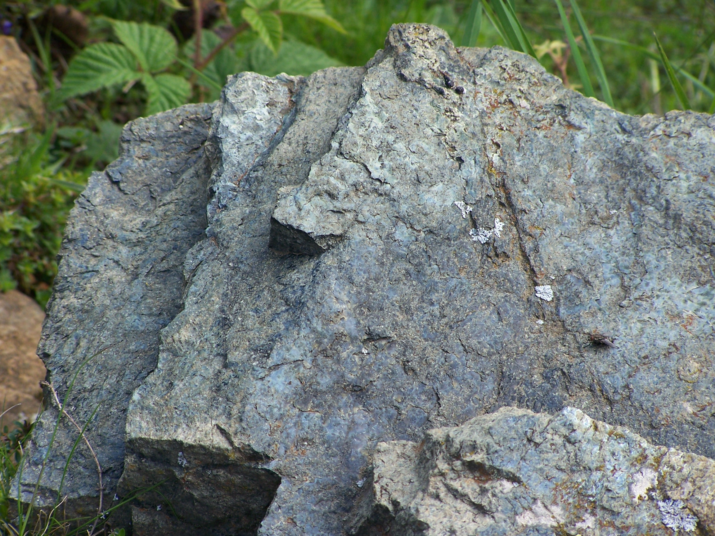 Lherzolite